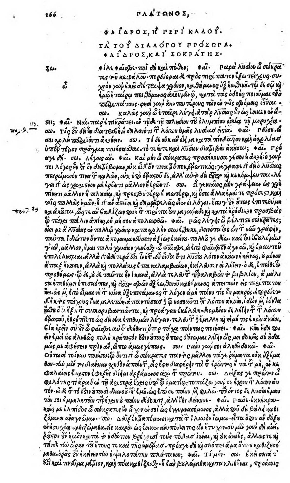 Phaidros beginning. Editio princeps, Venice 1513.